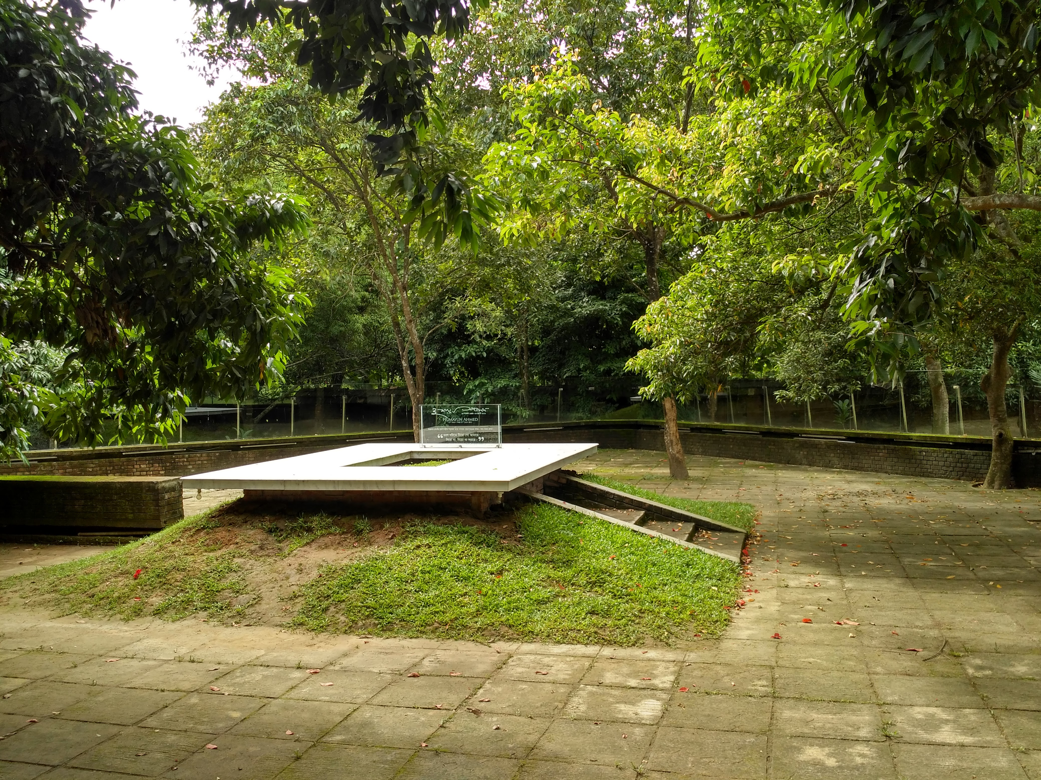 Grave of Humayun Ahmed at Nuhash Polli.